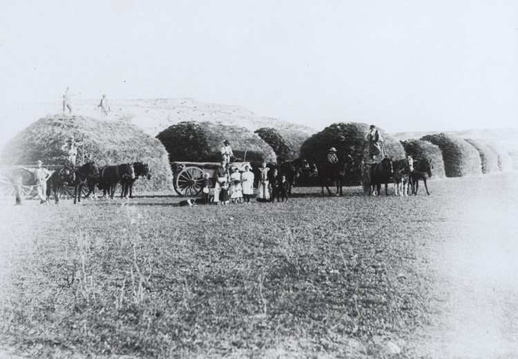 William Jones, Mary his sister and the children farming in the Welsh Colony, Patagonia